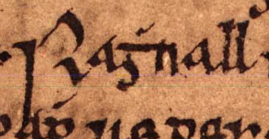 An excerpt from folio 23r of Oxford Bodleian Library MS Rawlinson B 488 (the Annals of Tigernach). The excerpt concerns Ragnall mac Torcaill, King of Dublin (died 1146).